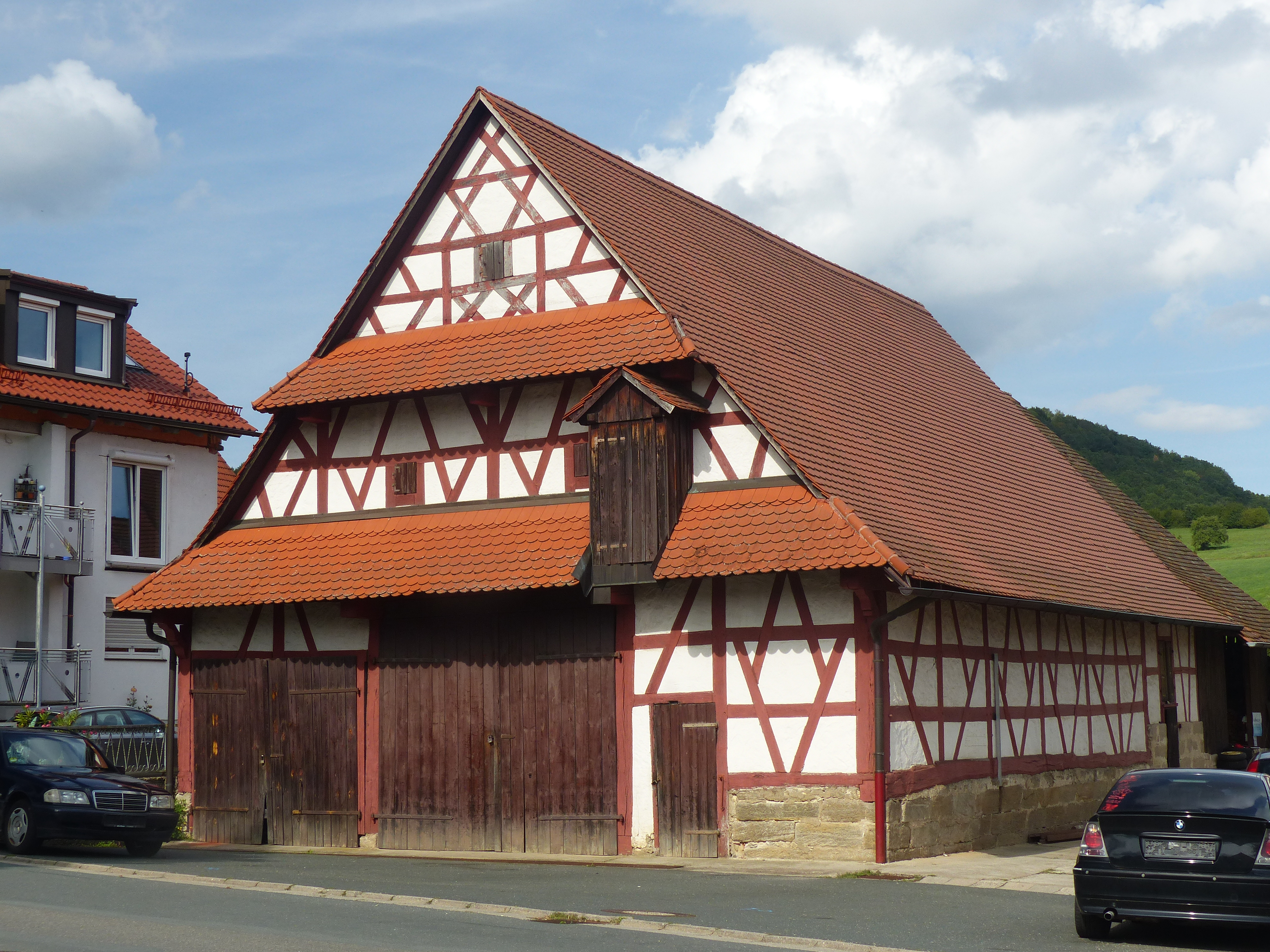 A barn in the village Mittlerweilersbach, a district of the municipality of Weilersbach.